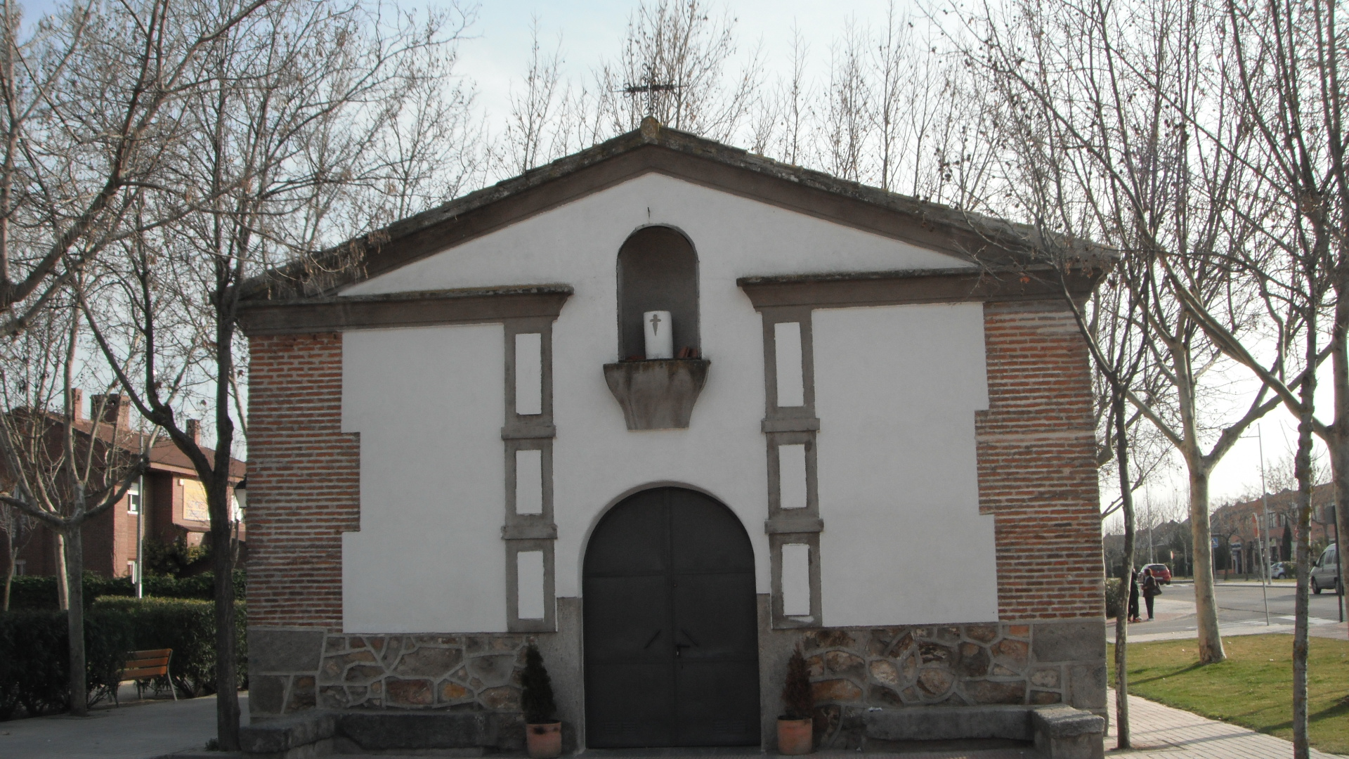 San Isidro church in Villanueva de la Canada, Spain